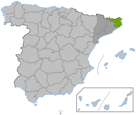 Location of Girona province